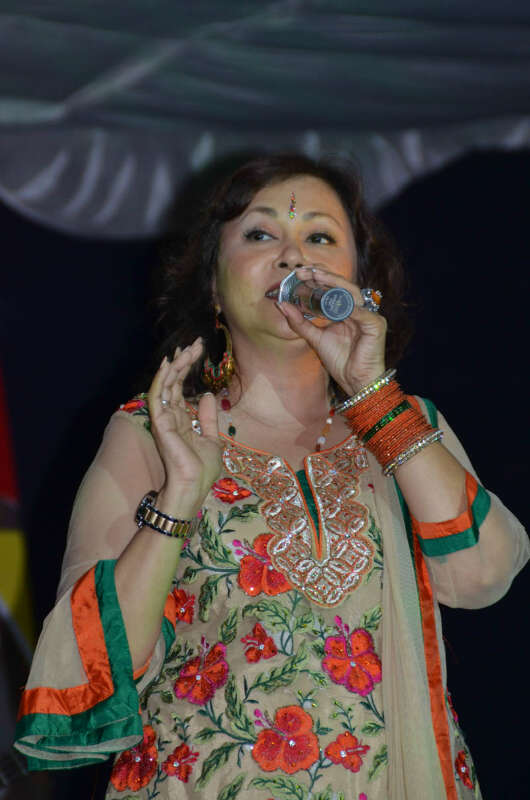 Poornima rocking the stage